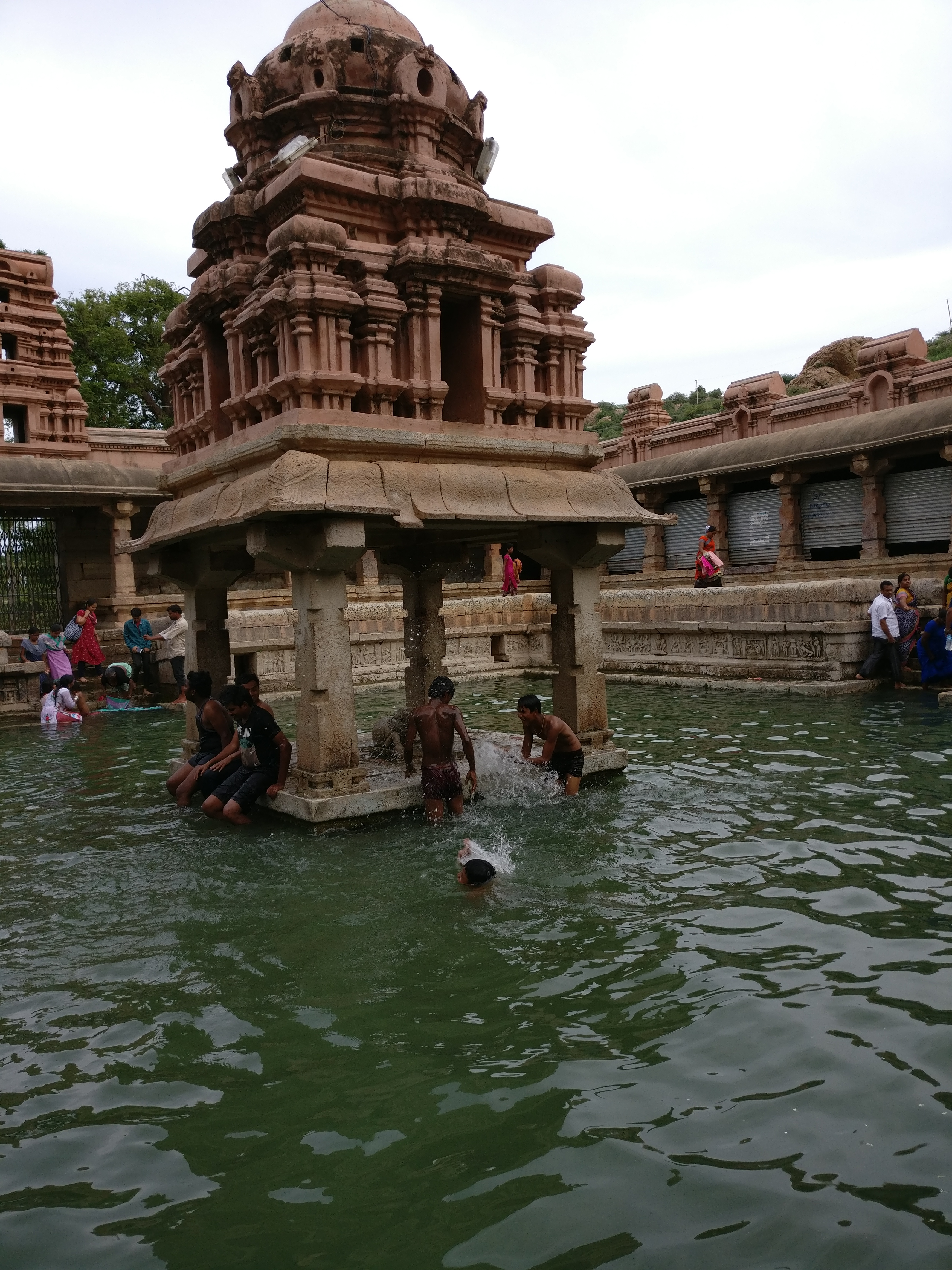 A feature of this temple is its Pushkarini, a small pond of water on the temple premises. Water flows into this Pushkarini from the bottom of hill through the mouth of a Nandi (bull).